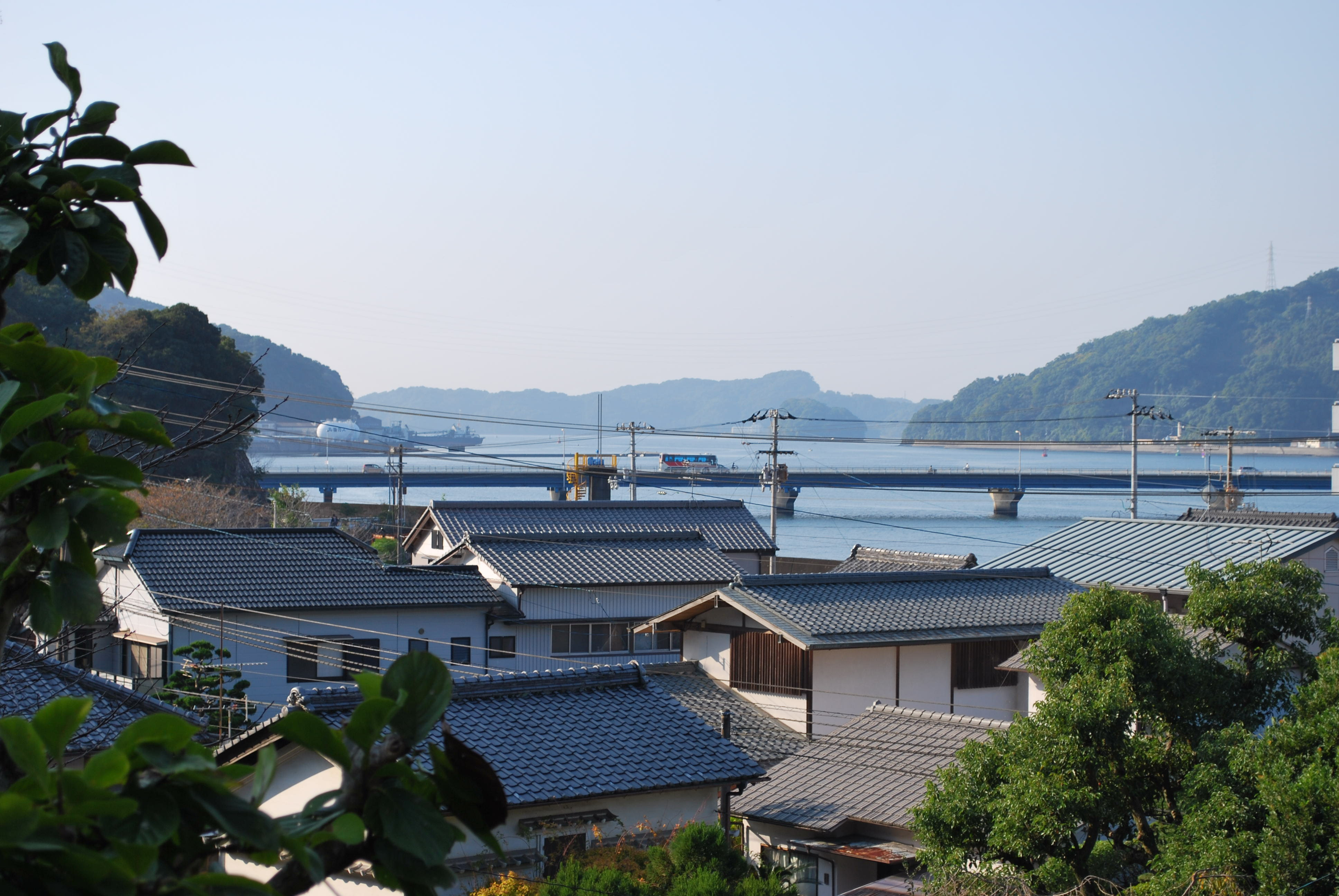 Urado Bay view form Gyūkō-ji